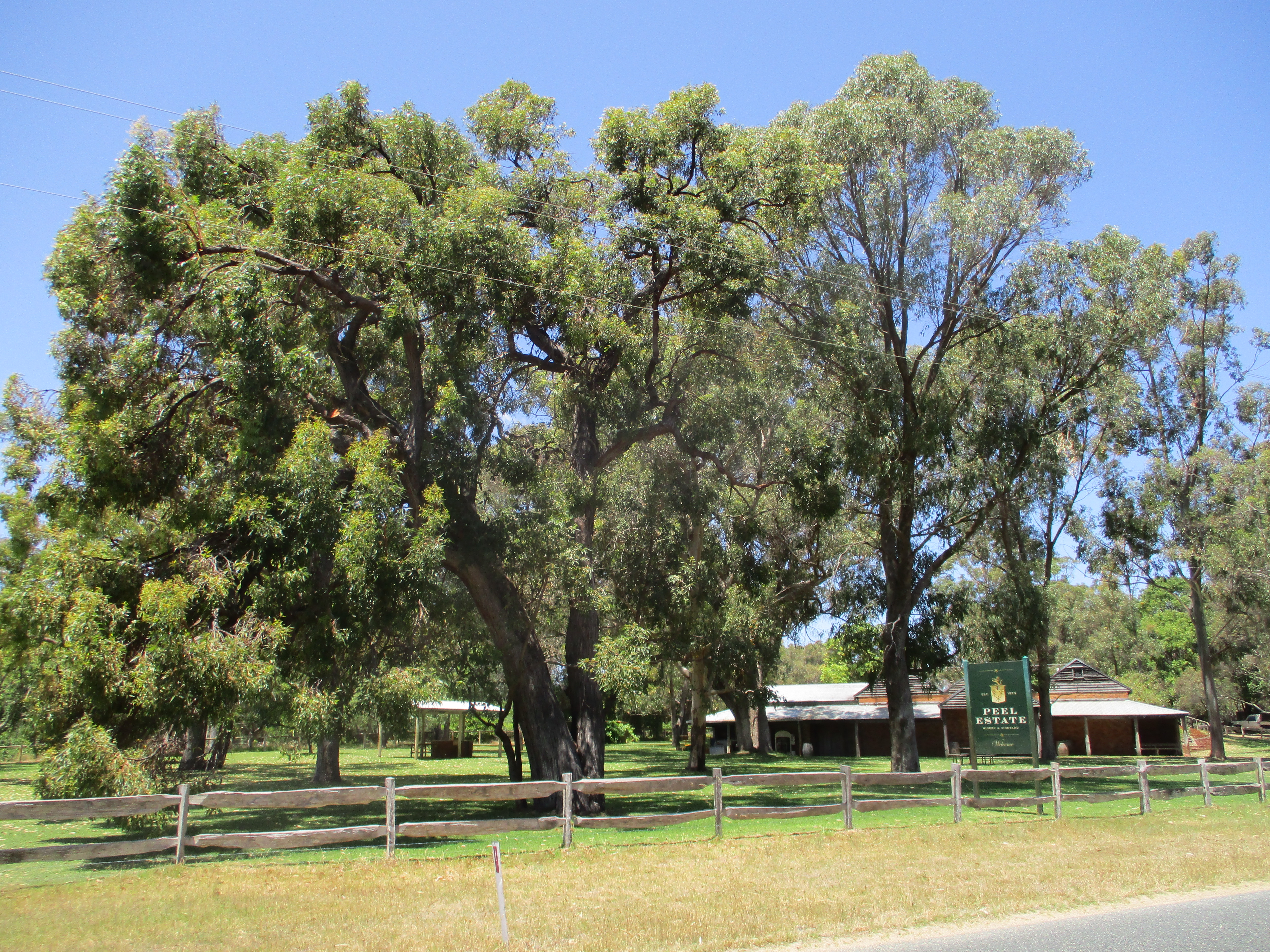 Peel Estate Wines, Karnup, Western Australia.